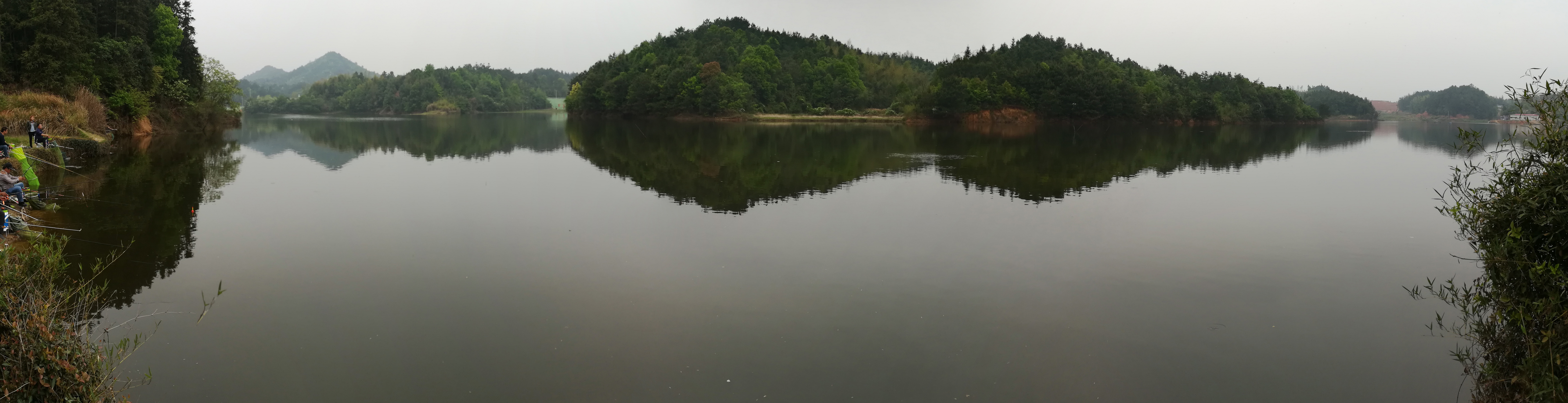 A panoramic view of Meihua Reservoir in Liushahe Town of Ningxiang, Hunan, China.